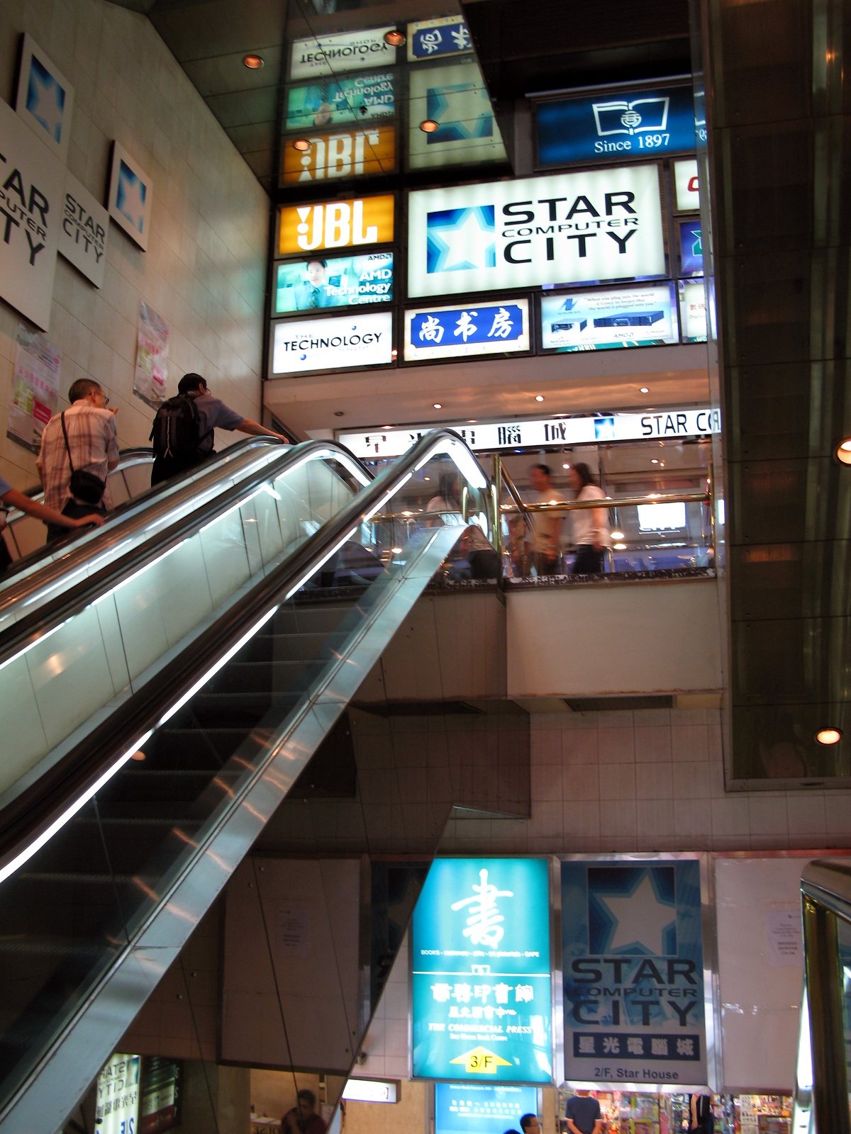 Star City Shopping Arcade Atrium